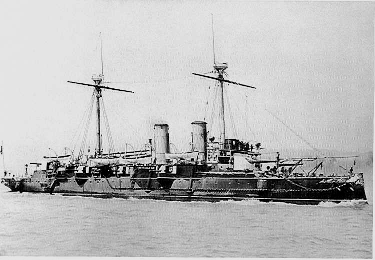 The protected cruise ' 'Reina Regente; it was first of his Class whith this name in honor to the queen of Spain, mother of Alfonso XIII. It was his launching in 1888, it entered 1889 in service and sank in 1895 in the gulf of Cadiz.